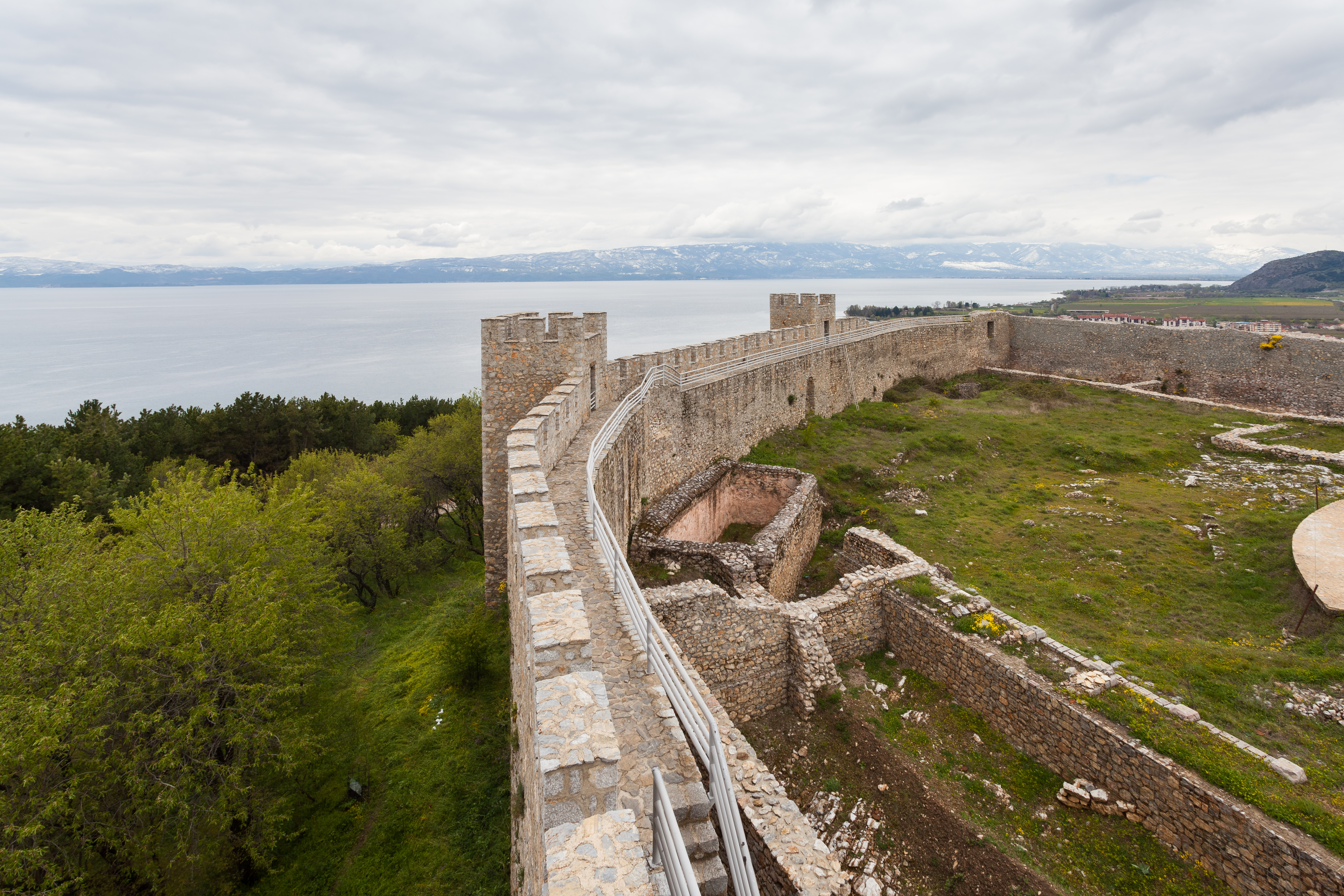 Samuil's Fortress, Ohrid, Macedonia